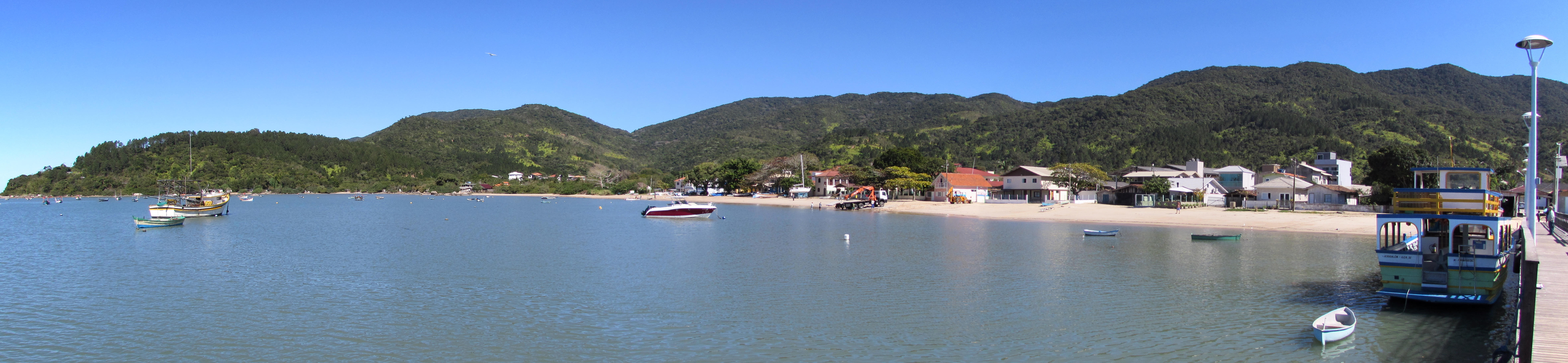 Panoramic made on Armação Beach, at Governador Celso Ramos, Santa Catarina State, sourthern Brazil.